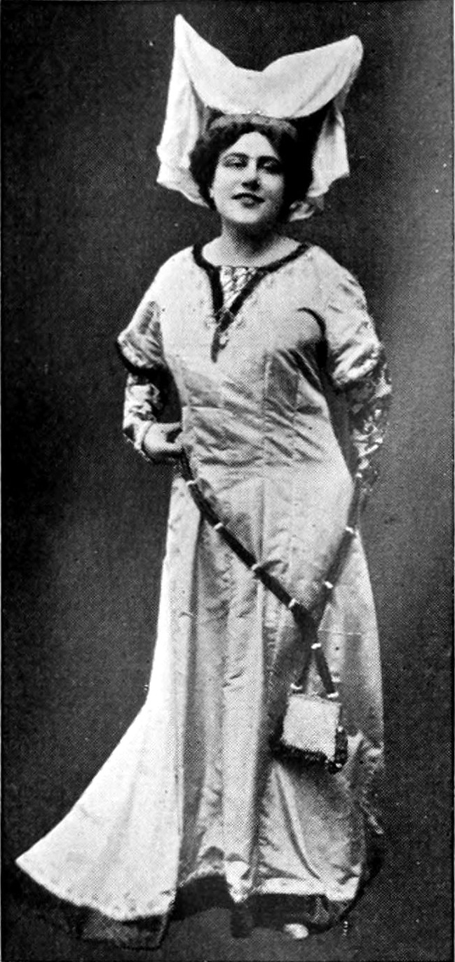 Destinn as Marie in The Bartered Bride Title: The Victrola book of the opera : stories of one hundred and twenty operas with seven-hundred illustrations and descriptions of twelve-hundred Victor opera records Year: 1917 (1910s) Authors: Victor Talking Machine Company Rous, Samuel Holland Subjects: Operas Publisher: Camden, N.J. : Victor Talking Machine Co. Text Appearing Before Image: ce was great, and on all sides was heard : How is it possible that such genius has not been recognized in Germany and Austria? Jk r^-flj Cast of Characters with Original American Cast KRUSCHINA, a peasant Baritone Robert Blass KATHINKA, his wife Soprano . Marie Mattfeld MARIE, their daughter Soprano Emmy Destinn MlCHA, a land owner Bass. . Adolf Muehlmann AGNES, his wife Mezzo-Soprano . Henrietta Wakefield WENZEL, their son Tenor Albert Reiss HANS, MICHAS son by first marriage Tenor Carl J6rn KEZAL, a marriage broker Bass Adam Didur Smetana, a pupil of Liszt, composed altogether eight operas, besides a set of symphonicpoems called Mein Vaterland. For ten years prior to his death (1884) he was totallydeaf, yet some of his best work was written during this period. The Bartered Bride was intended by its composer to be typical of Bohemian life andcharacter—to be a national opera, and so it really is. The work illustrates accurately Bohemian 39 VICTROLA BOOK OF THE OPERA —BARTERED BRIDE Text Appearing After Image: '